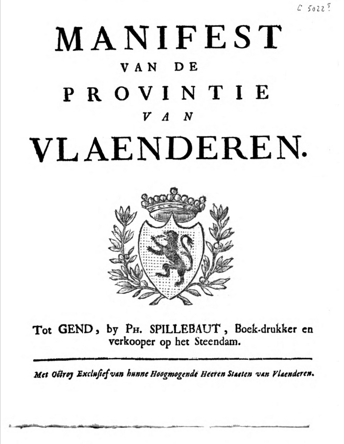 Title page of the Manifesto of the Province of Flanders, published on 4 January 1790 by the States of Flanders in Ghent, in the Dutch language.